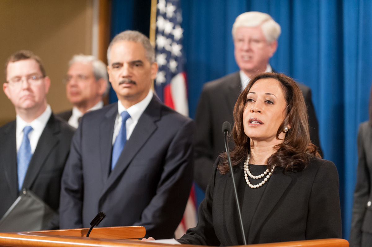 California Attorney General Kamala Harris. California Attorney General Kamala Harris acknowledges state-federal collaboration in the lawsuit against S&P.Today's action was filed in the Central District of California, home to the now defunct Western Federal Corporate Credit Union (WesCorp), which was the largest corporate credit union in the country. Following the 2008 financial crisis, WesCorp collapsed after suffering massive losses on RMBS and CDOs rated by S&P.